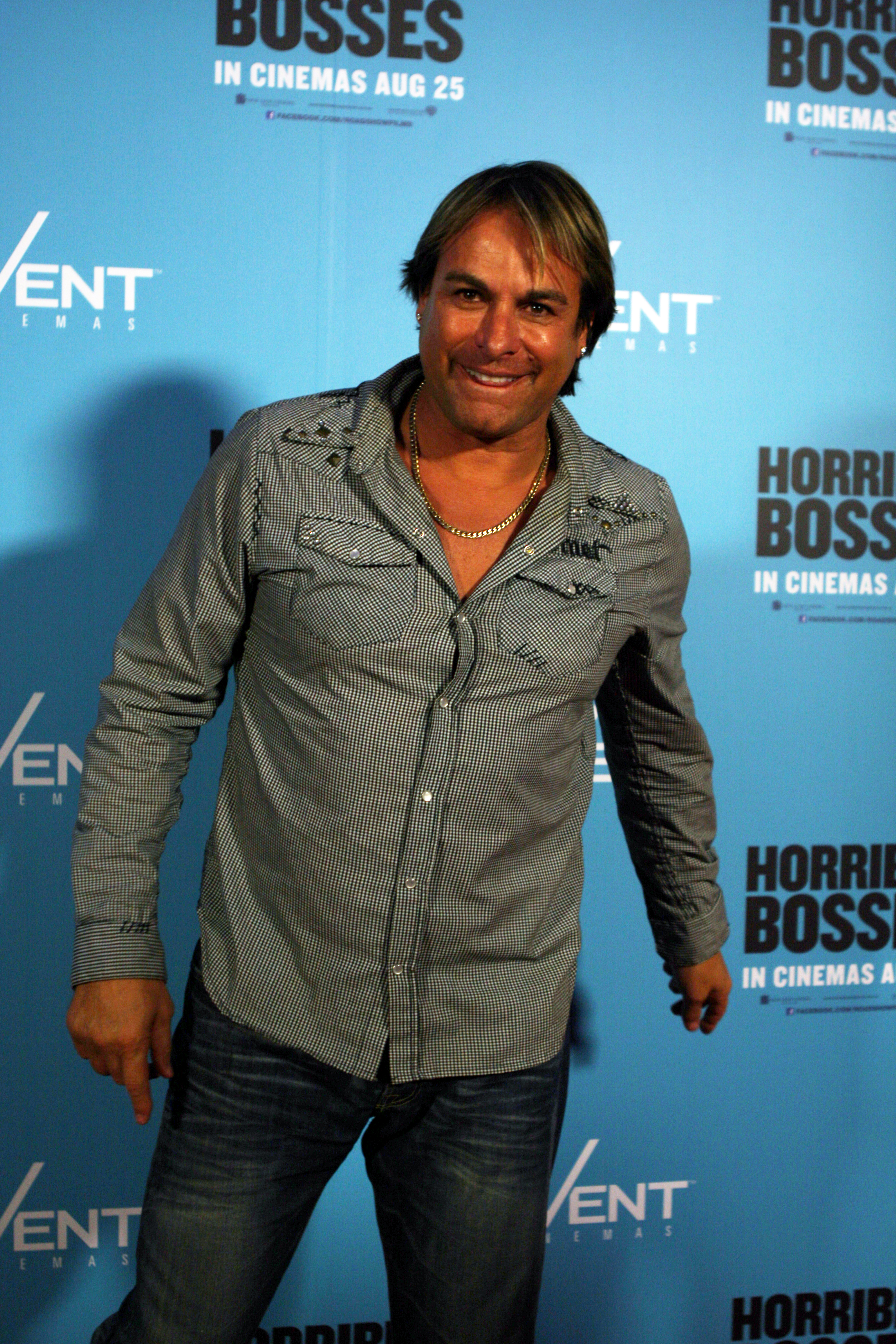 Warwick Capper at the Horrible Bosses premiere in Sydney